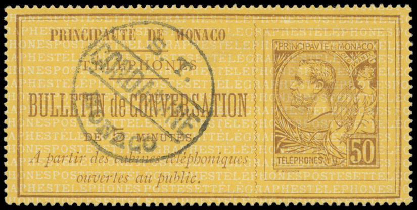 Monaco circa 1892 50c telephone stamp.